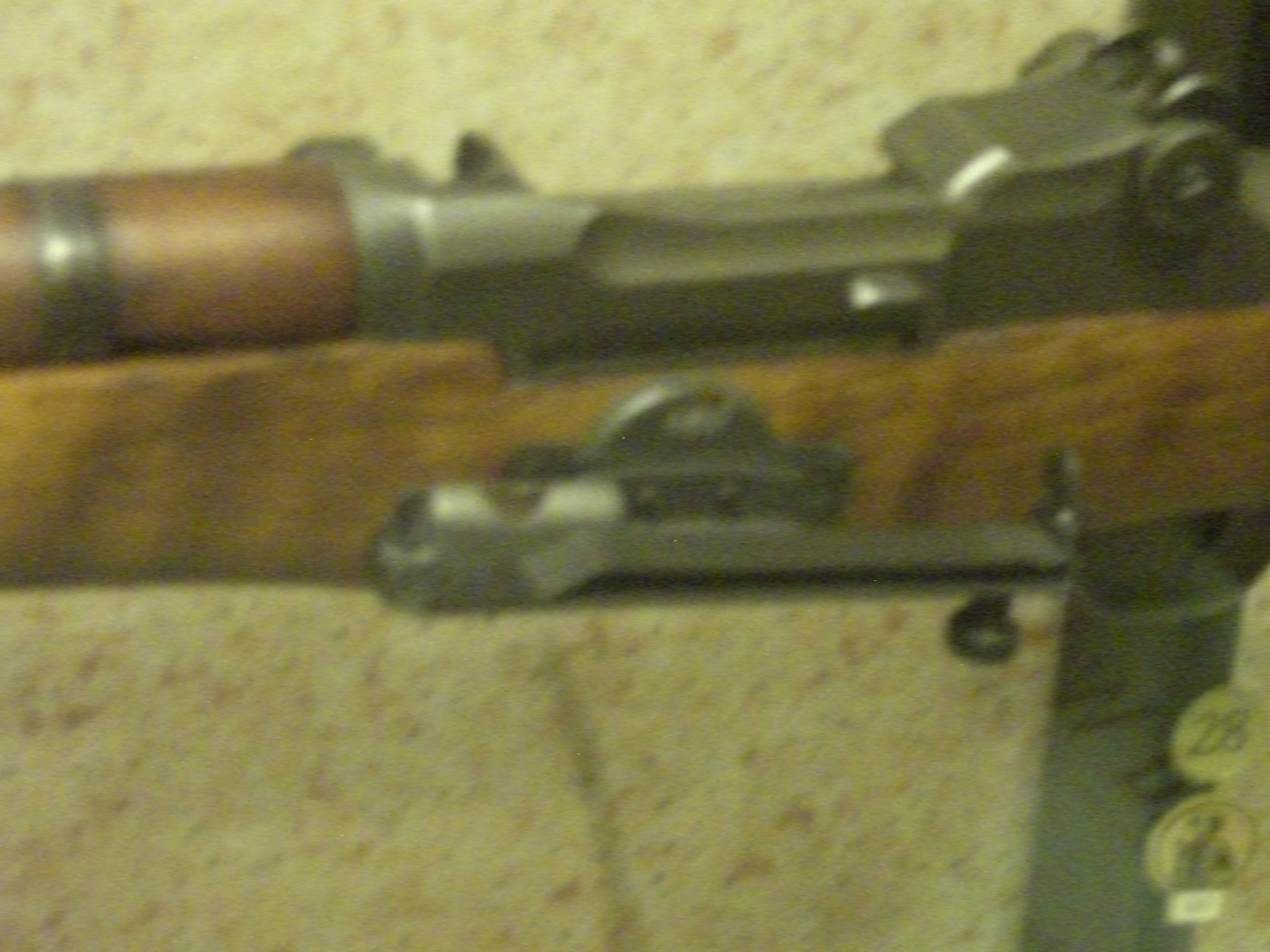 The sights on the side to aim the muzzle grenade on an M1 Garand. Taken at the National Firearms Museum